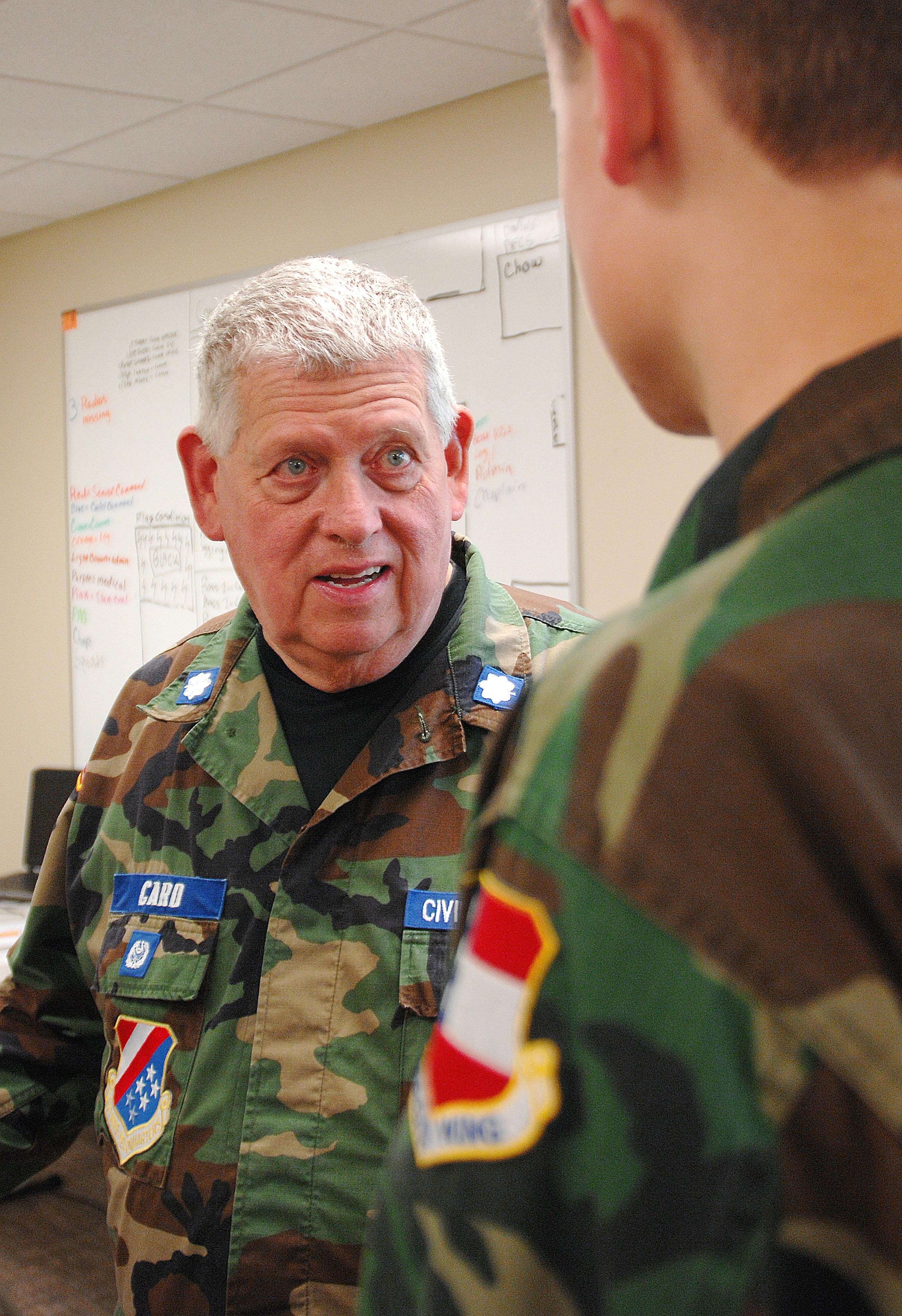 MARINE CORPS LOGISTICS BASE ALBANY - Lt. Col. James Card, (center), assistant director of communications and licensing officer, Georgia Wing Civil Air Patrol, discusses the CAP's three missions with a young cadet during Georgia Wing CAP’s weeklong summer encampment at Marine Corps Logistics Base Albany, July 21-25.